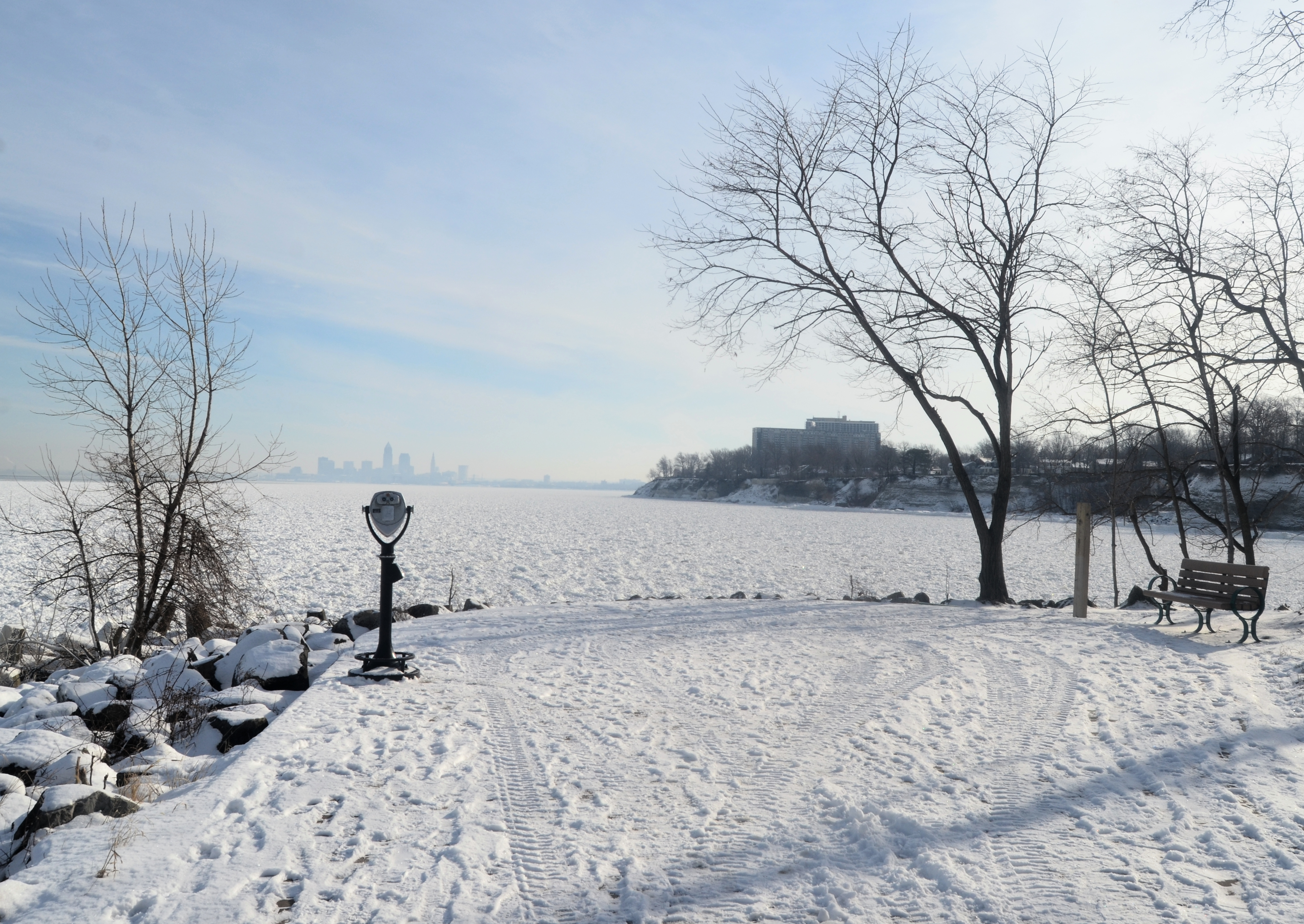 Cleveland, Ohio view from Lakewood Park